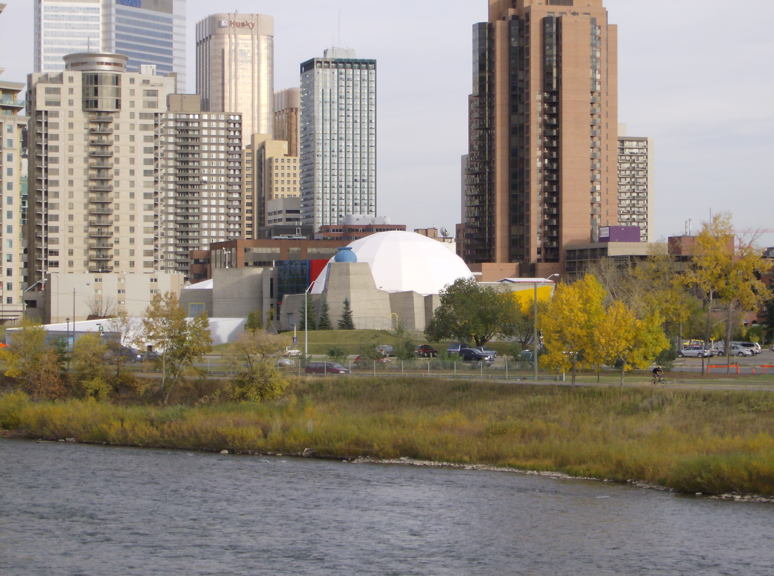 Picture of old Science Centre in (Calgary, Alberta, Canada) is at the approximate centre of the image. The building (or part of it) has a white dome roof. In the foreground is the Bow River. The photographer is standing on the 14 Street NW bridge (not visible in picture).